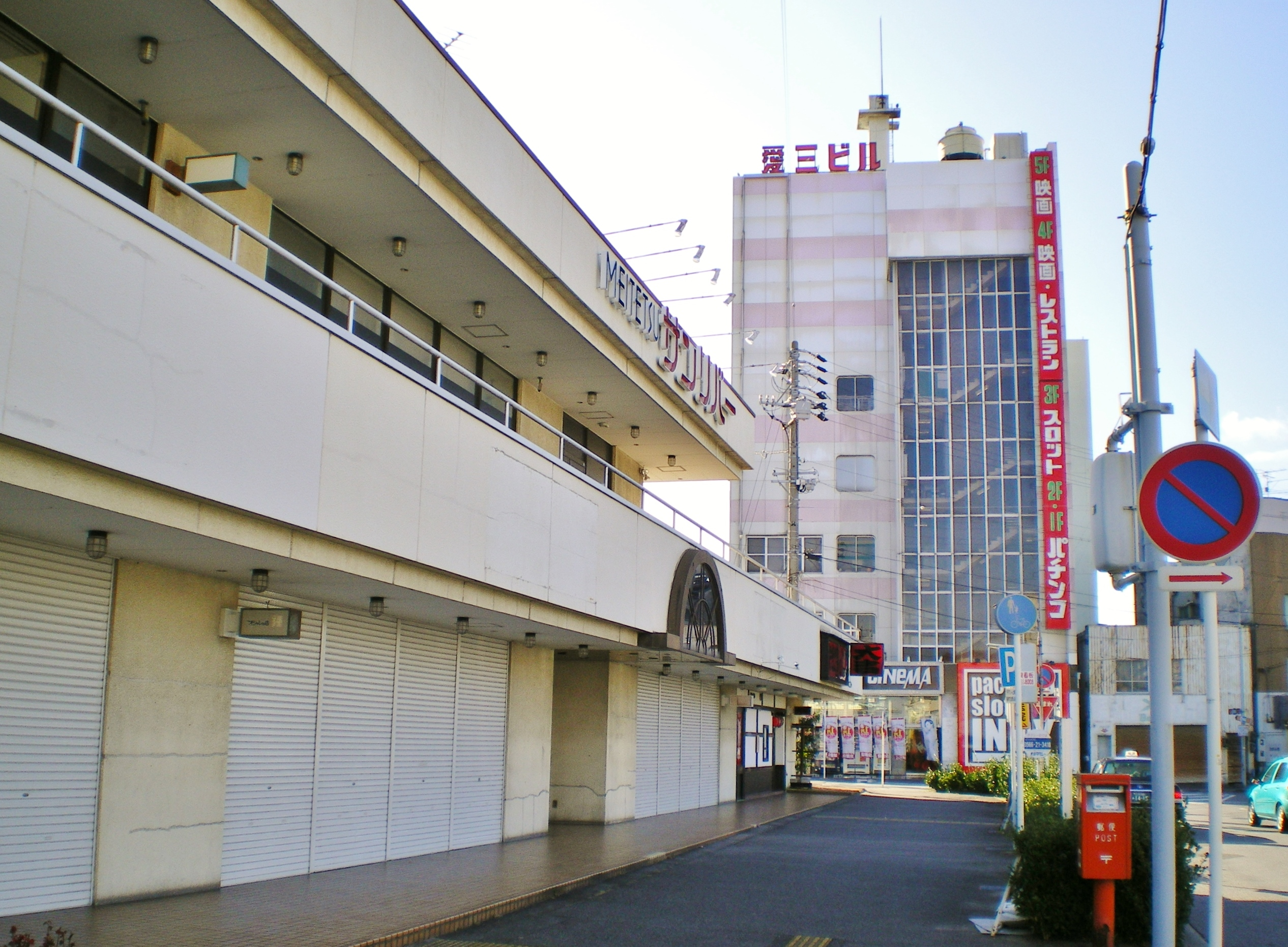 Nagoya Railroad Mikawa Line Kariyashi Station building, "Meitetsu Sun River".